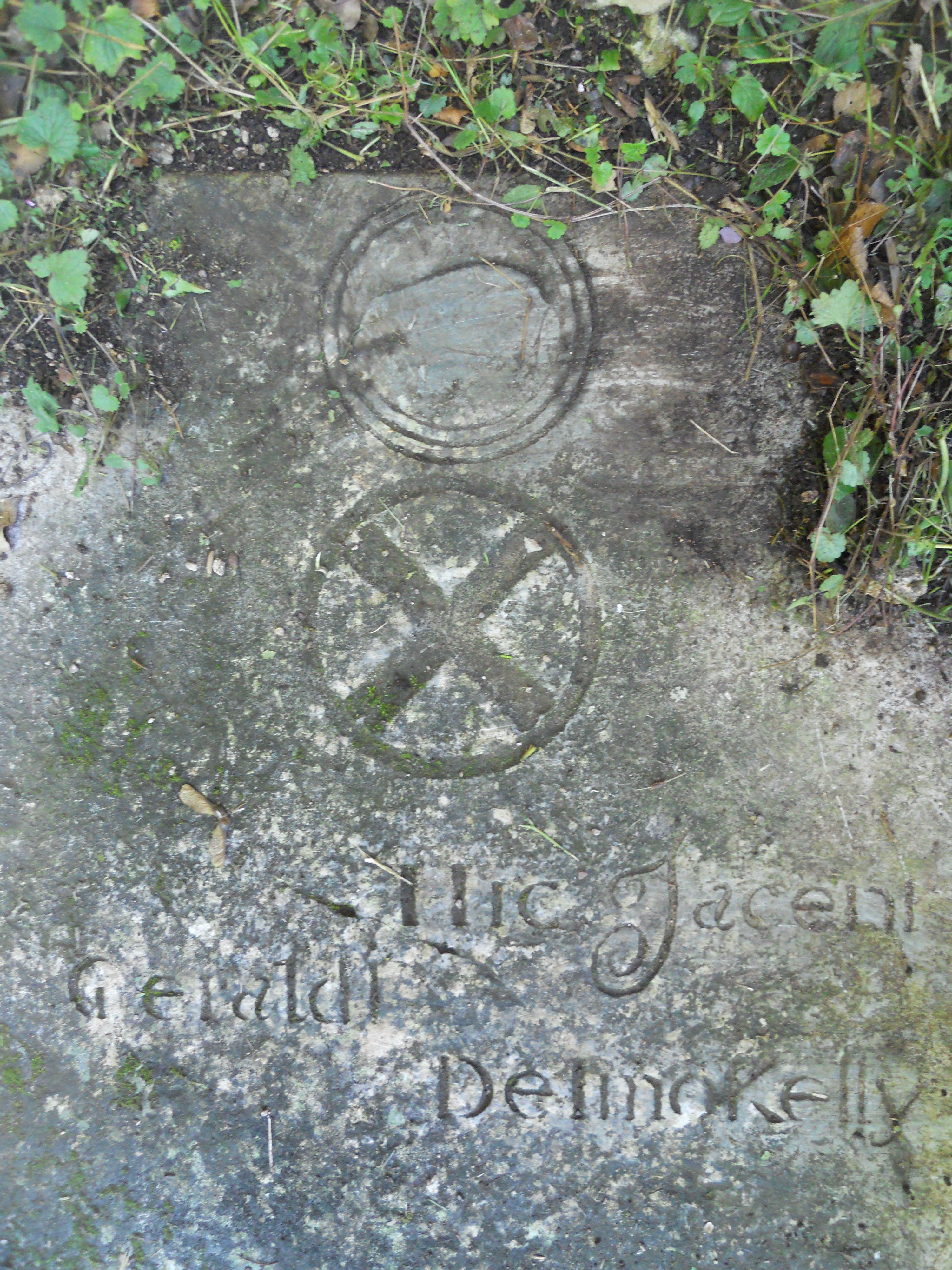 16th century tomb of the FitzGerald family, Seneschals of Imokilly, in the southeast corner of Ballyoughtera church ruins. Top picture boar coat of arms, bottom traditional FitzGerald coat. Inscription translates: "Here lies the Geraldines of Imokilly".